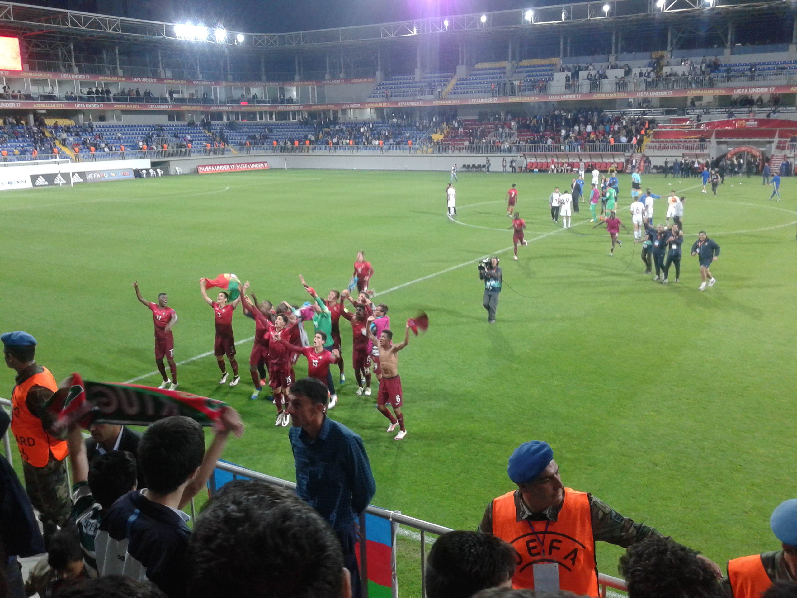 2016 UEFA European Under-17 Championship Final